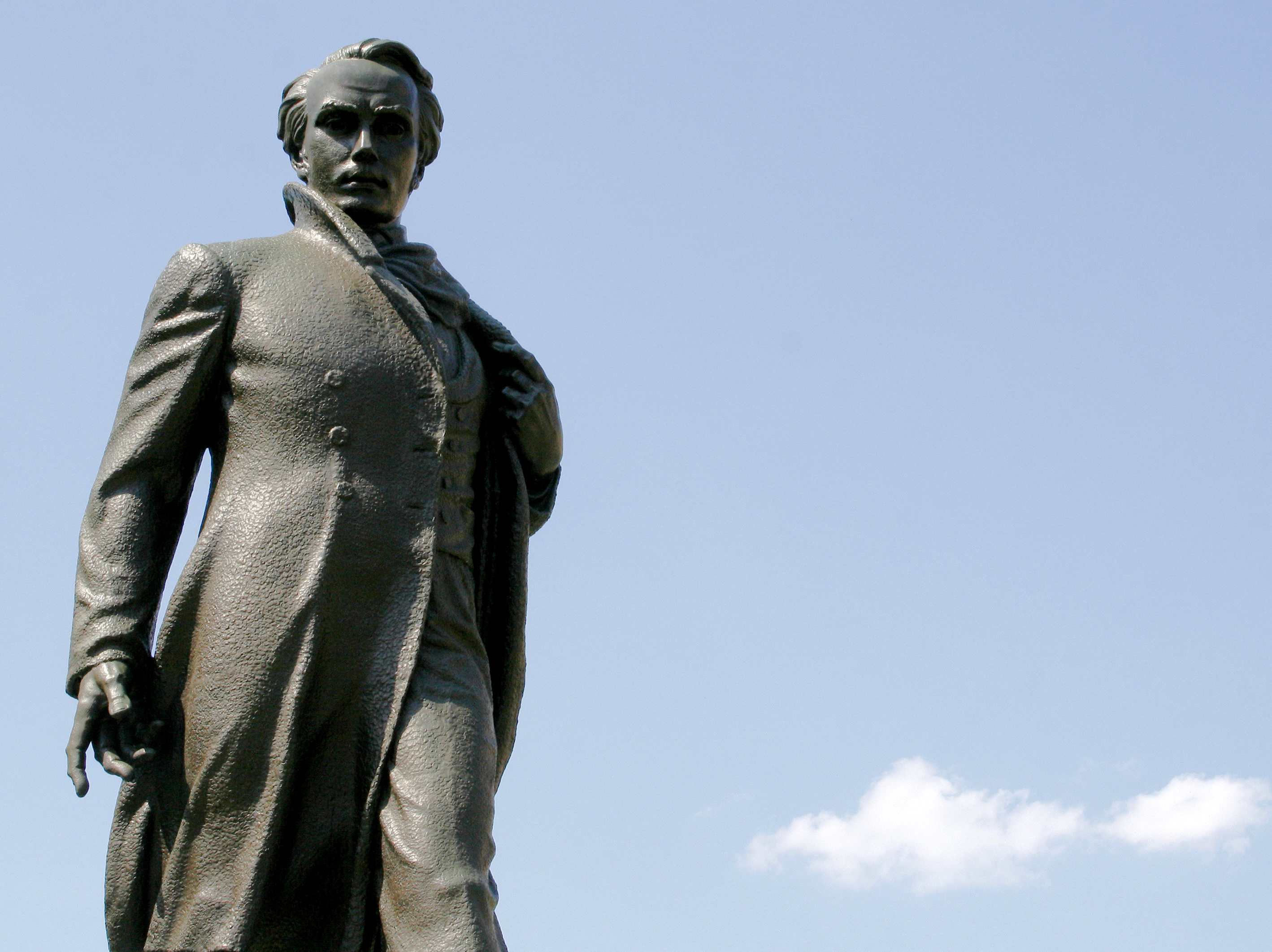 The Taras Shevchenko Memorial, located near the intersection of 22nd and P Streets, NW, in the Dupont Circle neighborhood of Washington, D.C. The statue was sculpted by Leo Mol, and the stonework was created by the Jones Brothers Company. A relief depicting Prometheus is located beside the statue. The memorial was authorized by Congress on September 13, 1960, and dedicated on June 27, 1964. It is administered by the National Park Service, a federal agency of the United States Department of the Interior.